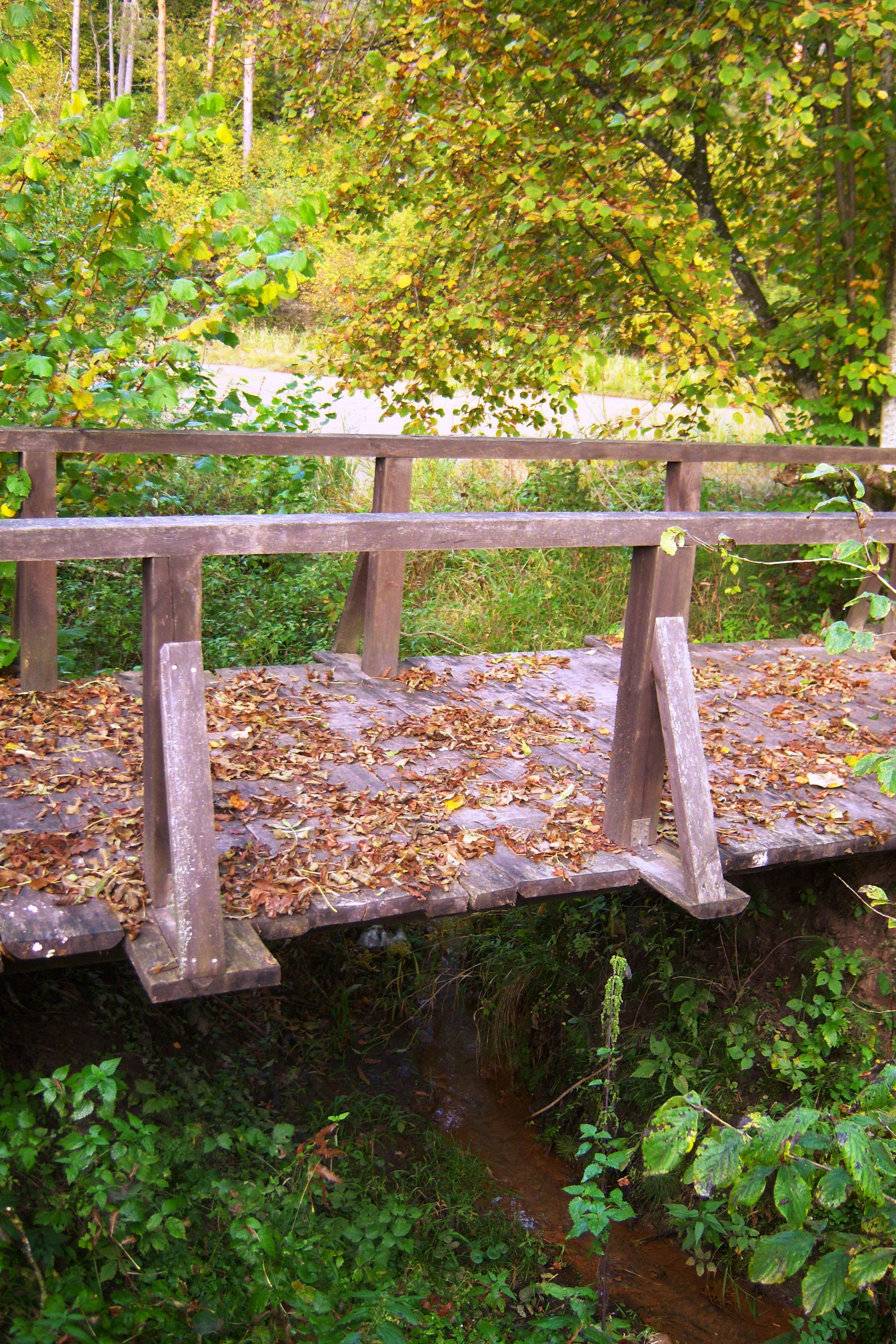 Footbridge By the Queen's Quagmire, an oxbow of the Šventoji River